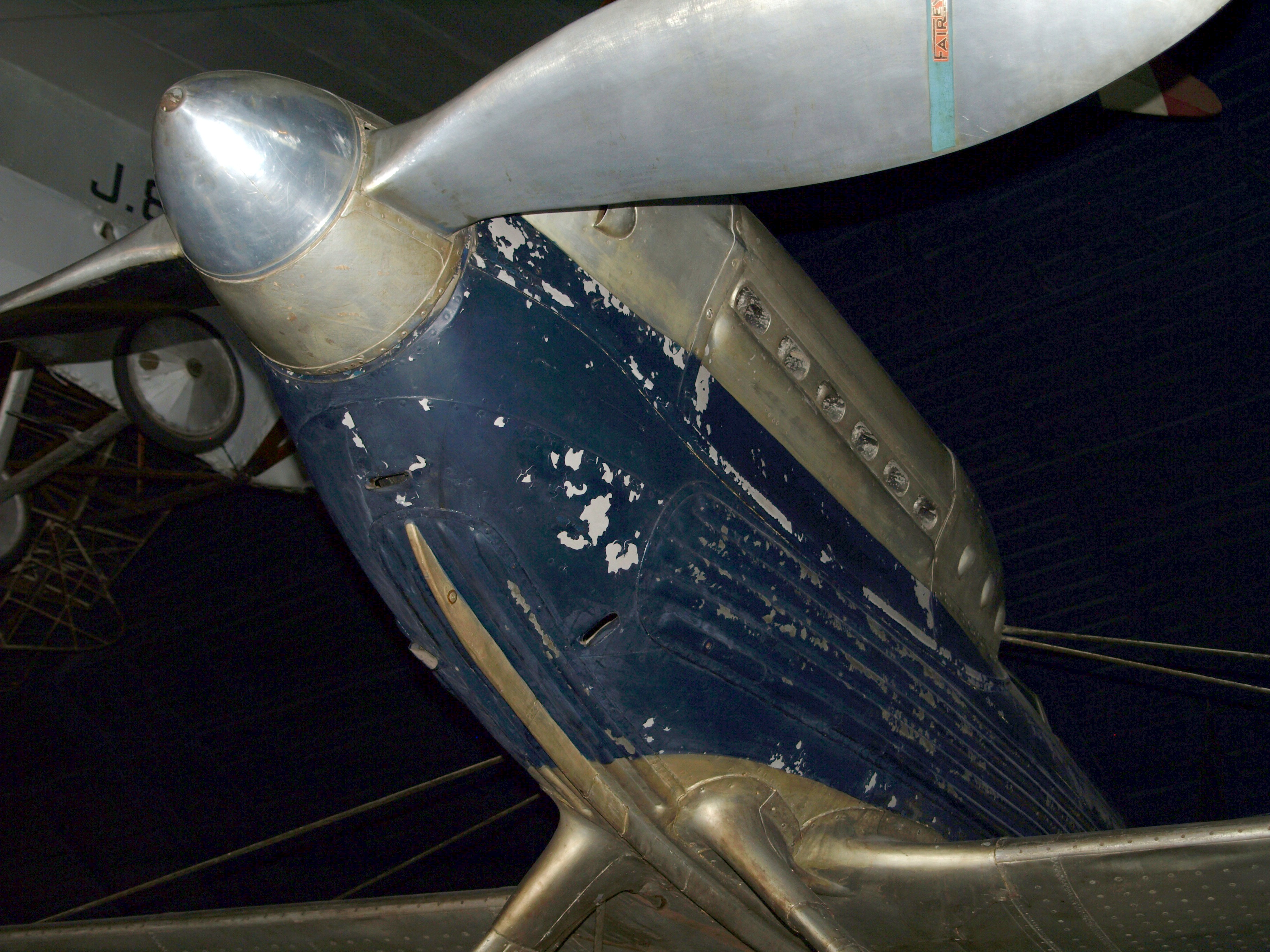 Supermarine S.6B racing seaplane on display at the London Science Museum